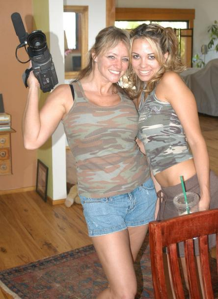 Sindee Coxx, Jenny Hendrix on set of Barely Legal 75, May 18, 2007